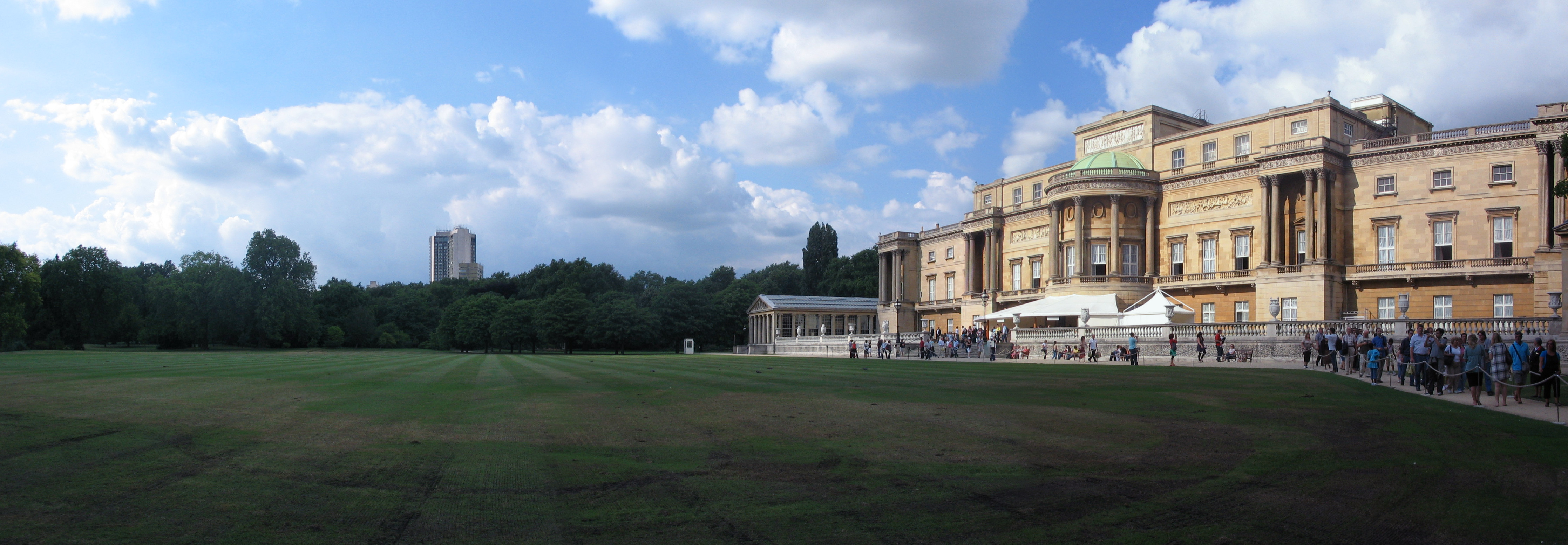 Buckingham Palace as seen from back garden